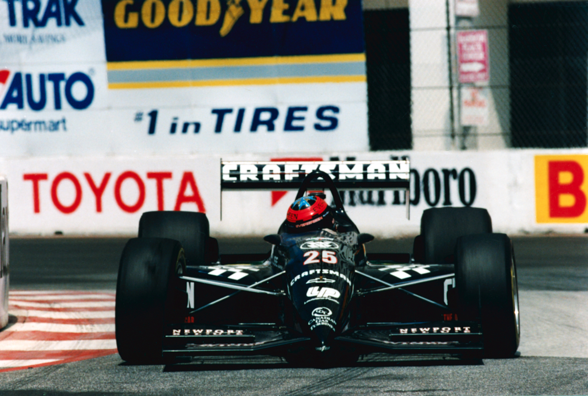 Mark Smith driving a Penske PC-21 for Arciero at the 1993 Long Beach Grand Prix